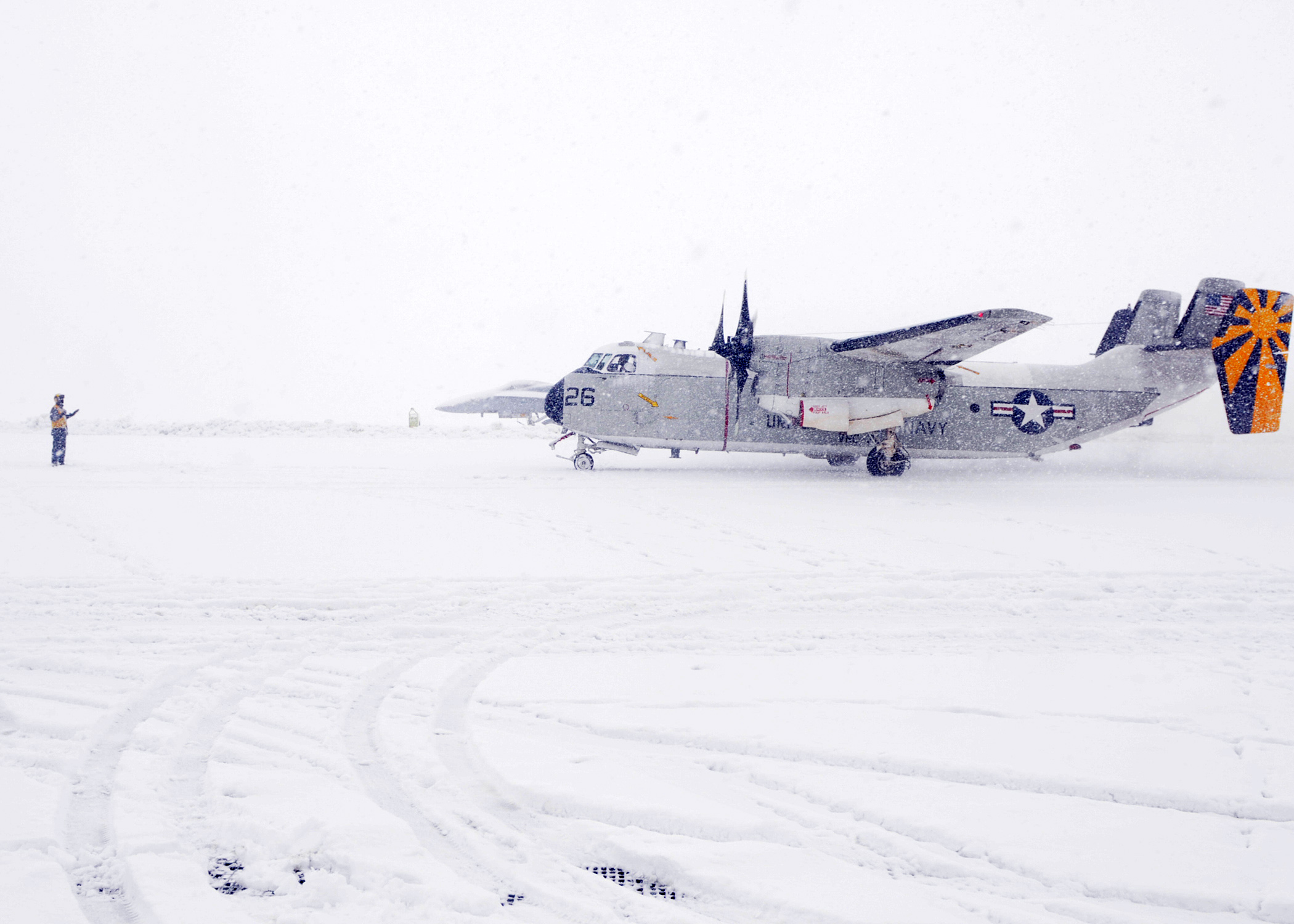 NAVAL AIR FACILITY MISAWA, Japan (March 26, 2011) Flight directors from Naval Air Facility Misawa guide a C-2 passenger plane onto the Navy ramp to disembark personnel. The facility is currently hosting additional squadrons that are conducting humanitarian aid missions throughout Japan in support of Operation Tomodachi. (U.S. Navy photo by Mass Communication Specialist 2nd Class Devon Dow/Released)